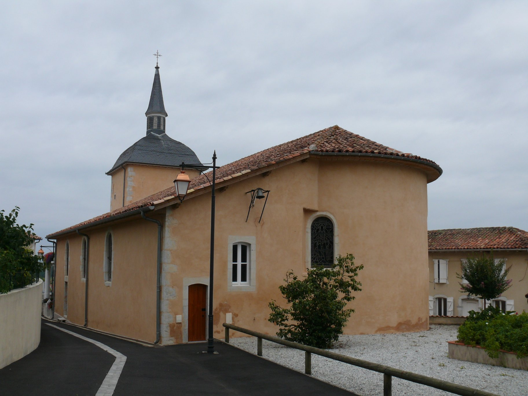 Saint-James' church of Estibeaux (Landes, Aquitaine, France).